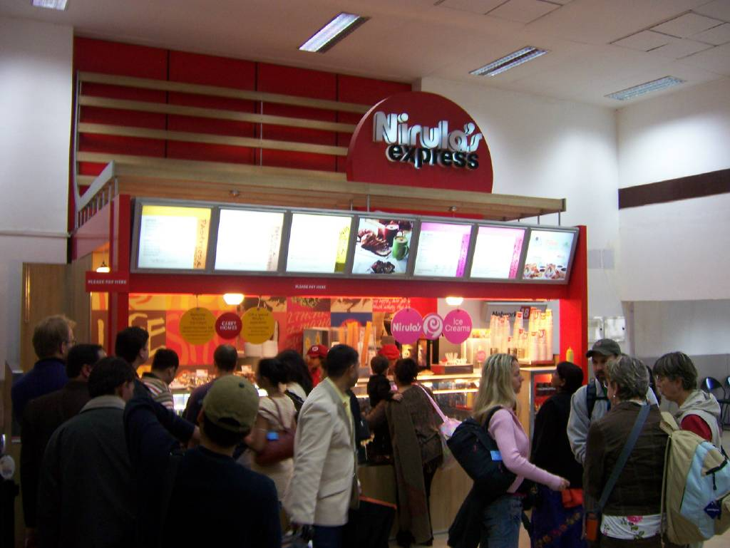 Favourite eating place, thus. Wish they would store all their ice-cream flavours, though. At 1B domestic departure.